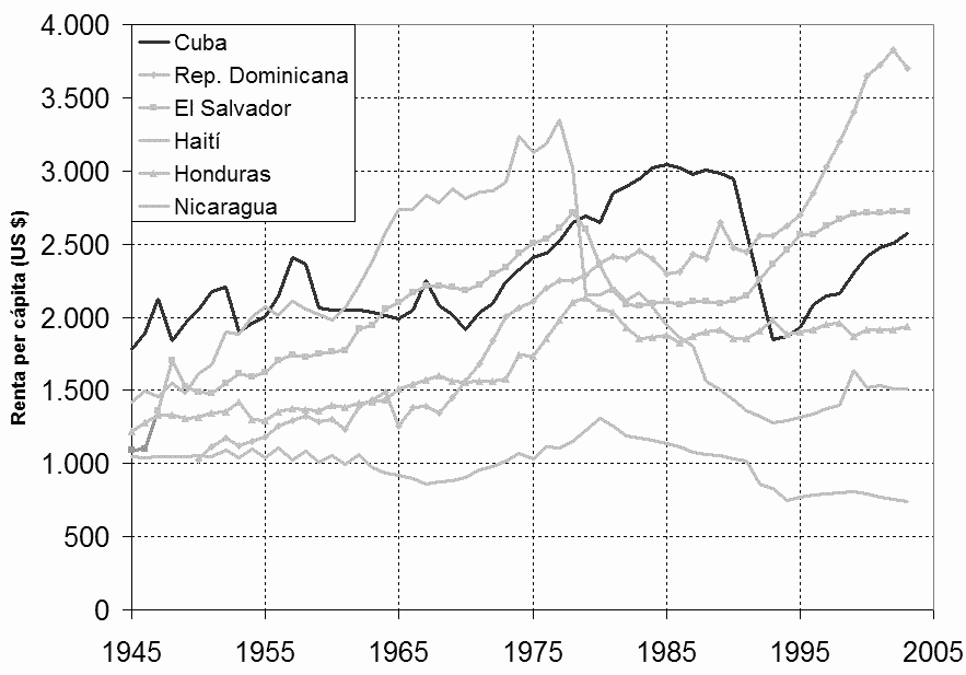 Comparative "GDP per capita" for some Caribbean countries, based on World Population, GDP and Per Capita GDP, 1-2003 AD